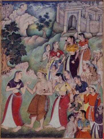 "Kunti leading Gandhari. Description: Gandhari, blindfolded, supporting Dhritarashtra and following Kunti when Dhritarashtra became old and infirm and retired to the forest. A miniature painting from a sixteenth century manuscript of part of the Razmnama, the Persian translation of the Hindu epic Mahabharata. Title of Work: Razmnama. Author: Naqib Khan (translator). Illustrator: Dhanu. Production: India, 1598. Language/Script: Persian."